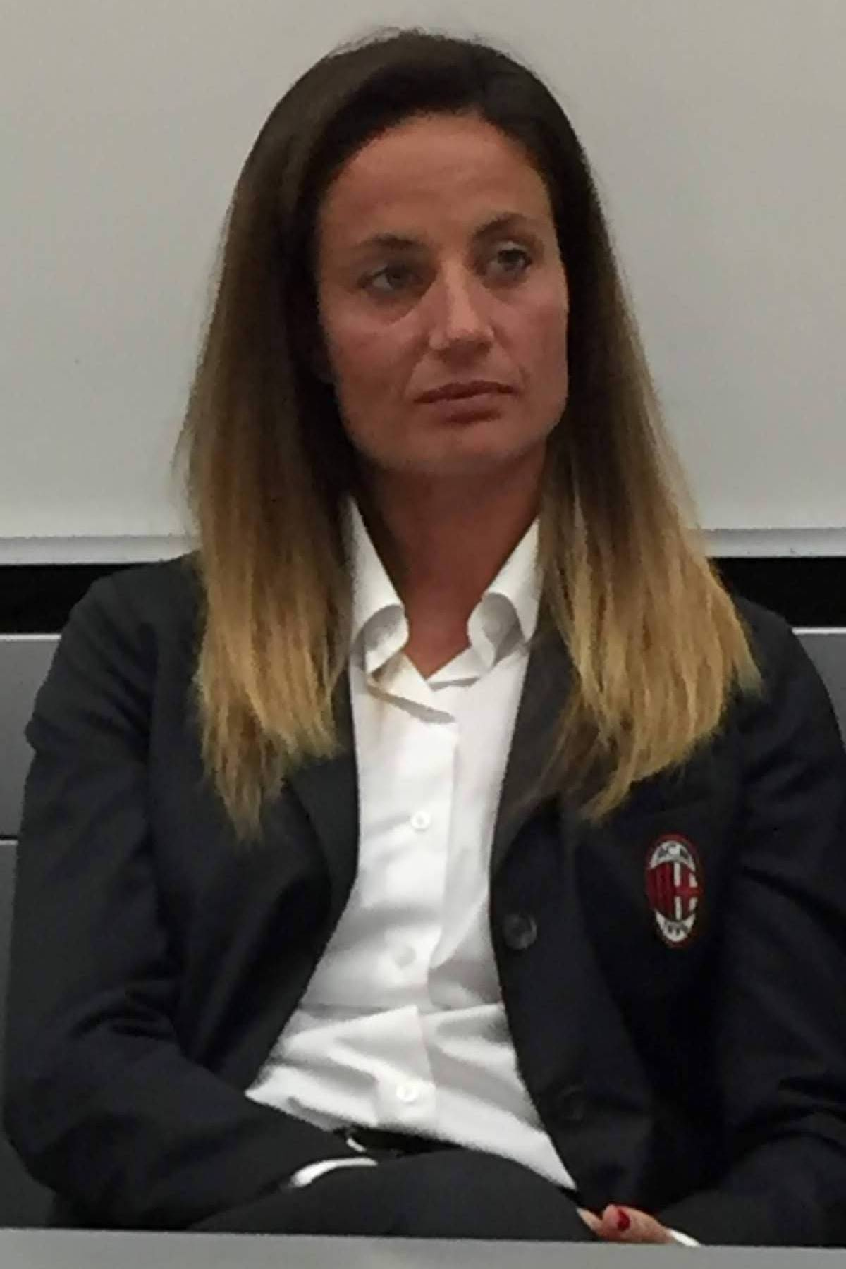 Raffaella Manieri at Bocconi University in 2019